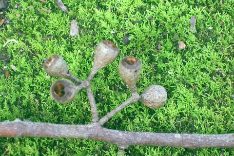 Eucalyptus fastigata paired gumnuts